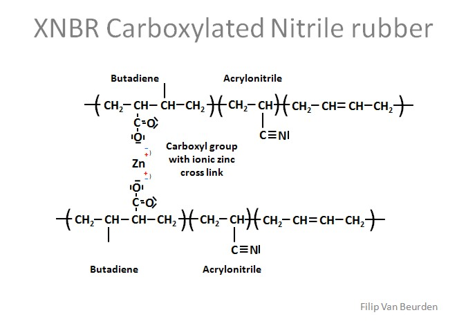 XNBR strings with a Carboxylgroup and the Zinc++ ionic link